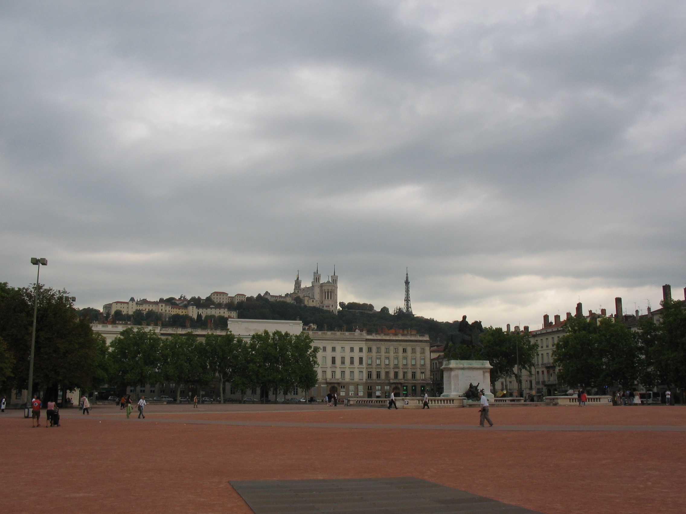 City of Lyon (France) - Place Bellecour and Fourvière view